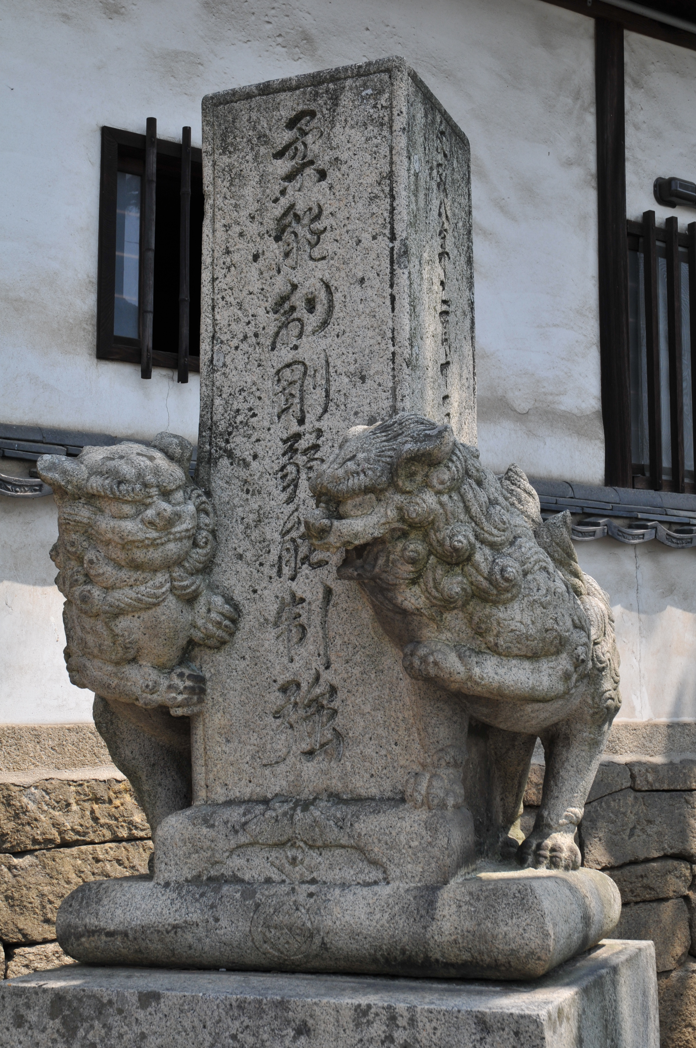 a stone monument in front of temple